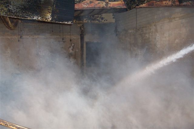 Steel beams sagging due to excessive heat from fire